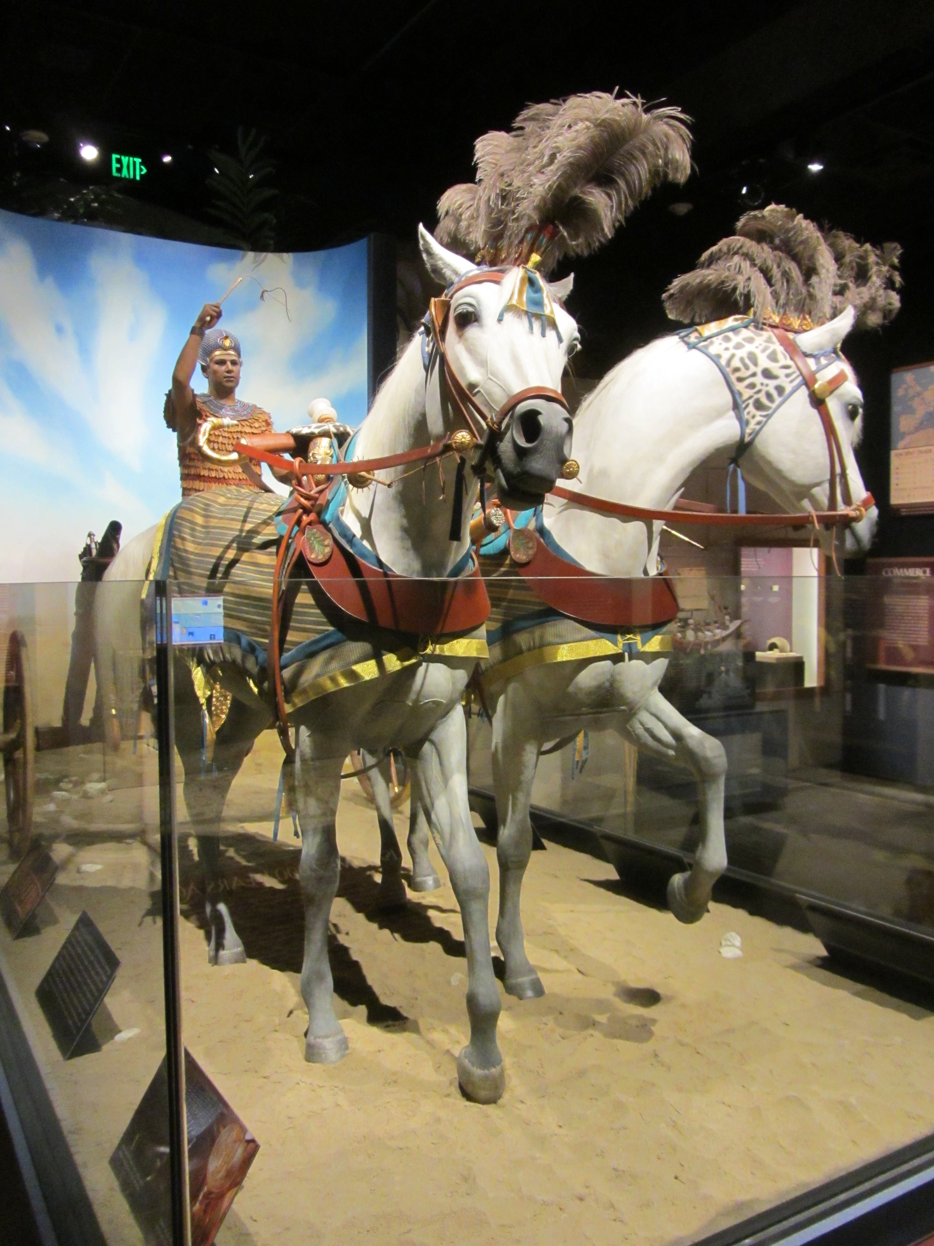 A full-scale reconstruction of King Tut driving his chariot in the new Crossroads of Civilization exhibit.